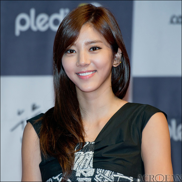 Son Dambi